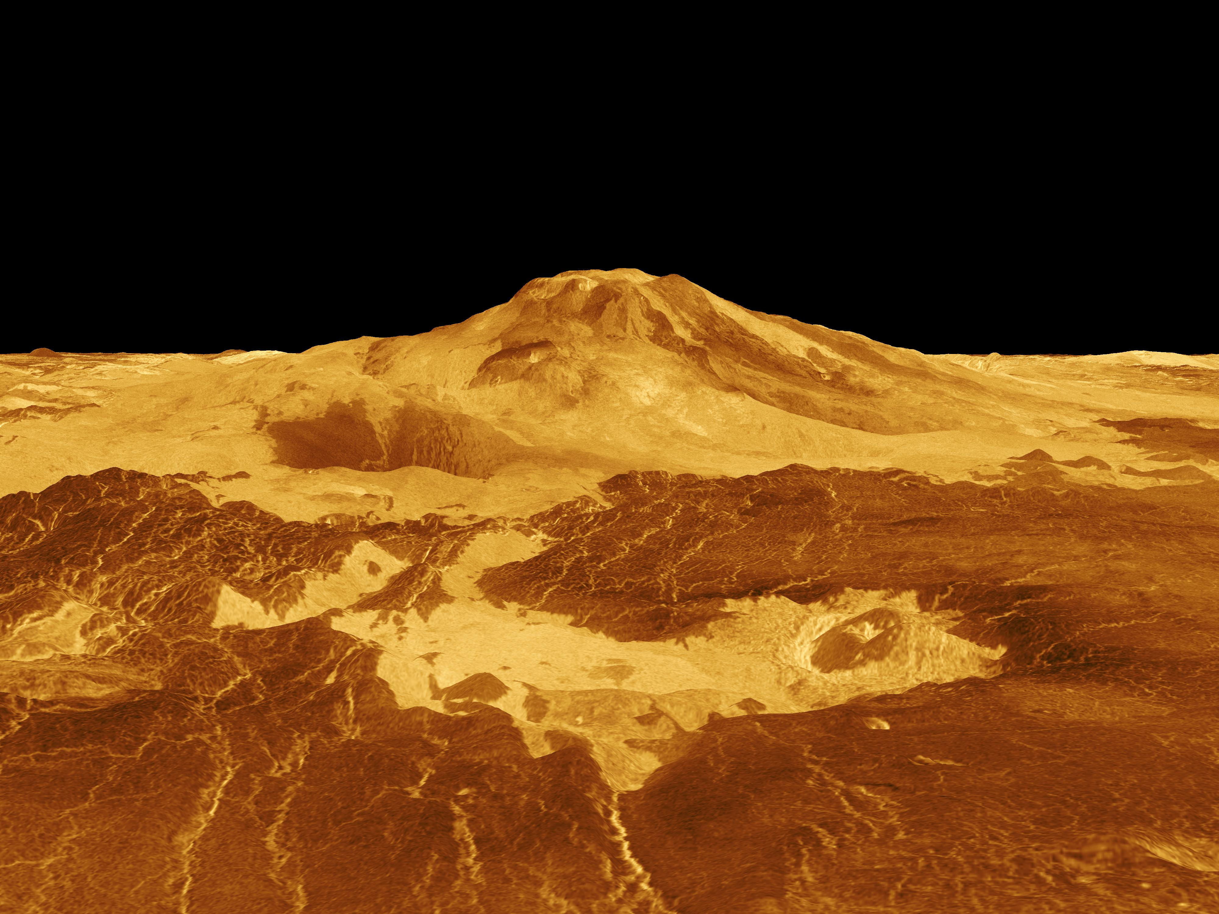 Maat Mons is displayed in this computer generated three-dimensional perspective of the surface of Venus. The viewpoint is located 634 kilometers (393 miles) north of Maat Mons at an elevation of 3 kilometers (2 miles) above the terrain. Lava flows extend for hundreds of kilometers across the fractured plains shown in the foreground, to the base of Maat Mons. The view is to the south with the volcano Maat Mons appearing at the center of the image on the horizon and rising to almost 5 kilometers (3 miles) above the surrounding terrain. Maat Mons is located at approximately 0.9 degrees north latitude, 194.5 degrees east longitude with a peak that ascends to 8 kilometers (5 miles) above the mean surface. Maat Mons is named for an Egyptian Goddess of truth and justice. Magellan synthetic aperture radar data is combined with radar altimetry to develop a three-dimensional map of the surface. The vertical scale in this perspective has been exaggerated 10 times. Rays cast in a computer intersect the surface to crate a three-dimensional perspective view. Simulated color and a digital elevation map developed by the U.S. Geological Survey are used to enhance small-scale structure. The simulated hues are based on color images recorded by the Soviet Venera 13 and 14 spacecraft. The image was produced by the Solar System Visualization project and the Magellan Science team at the JPL Multimission Image Processing Laboratory and is a single frame from a video released at the April 22, 1992 news conference.